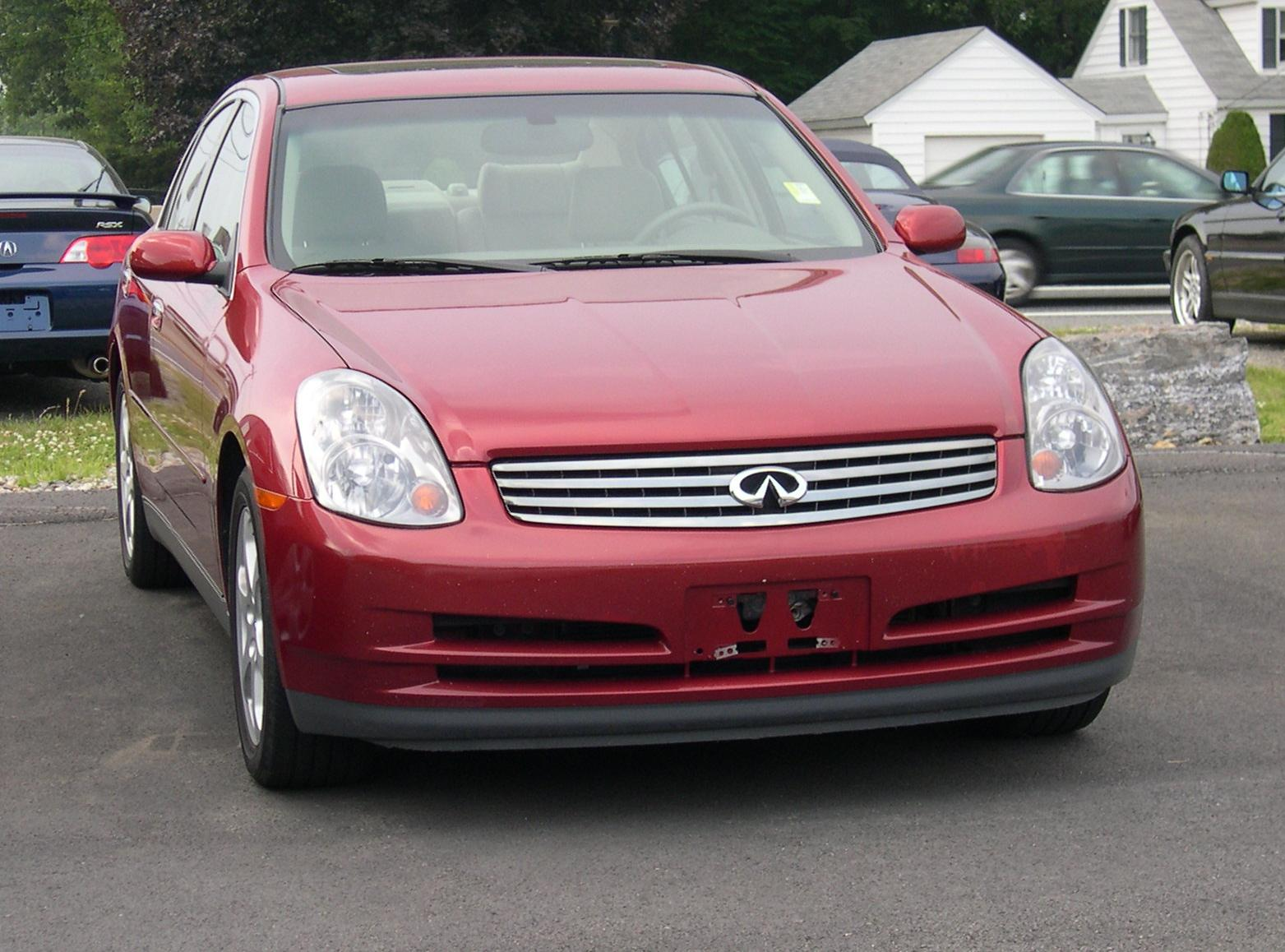 2004 Infiniti G35 Sedan Source: Photo by User:Sfoskett